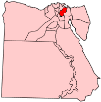 Map of Egypt showing Ash Sharqiyah (Sharkeya) governorate. Made by User:Golbez based on PD maps.